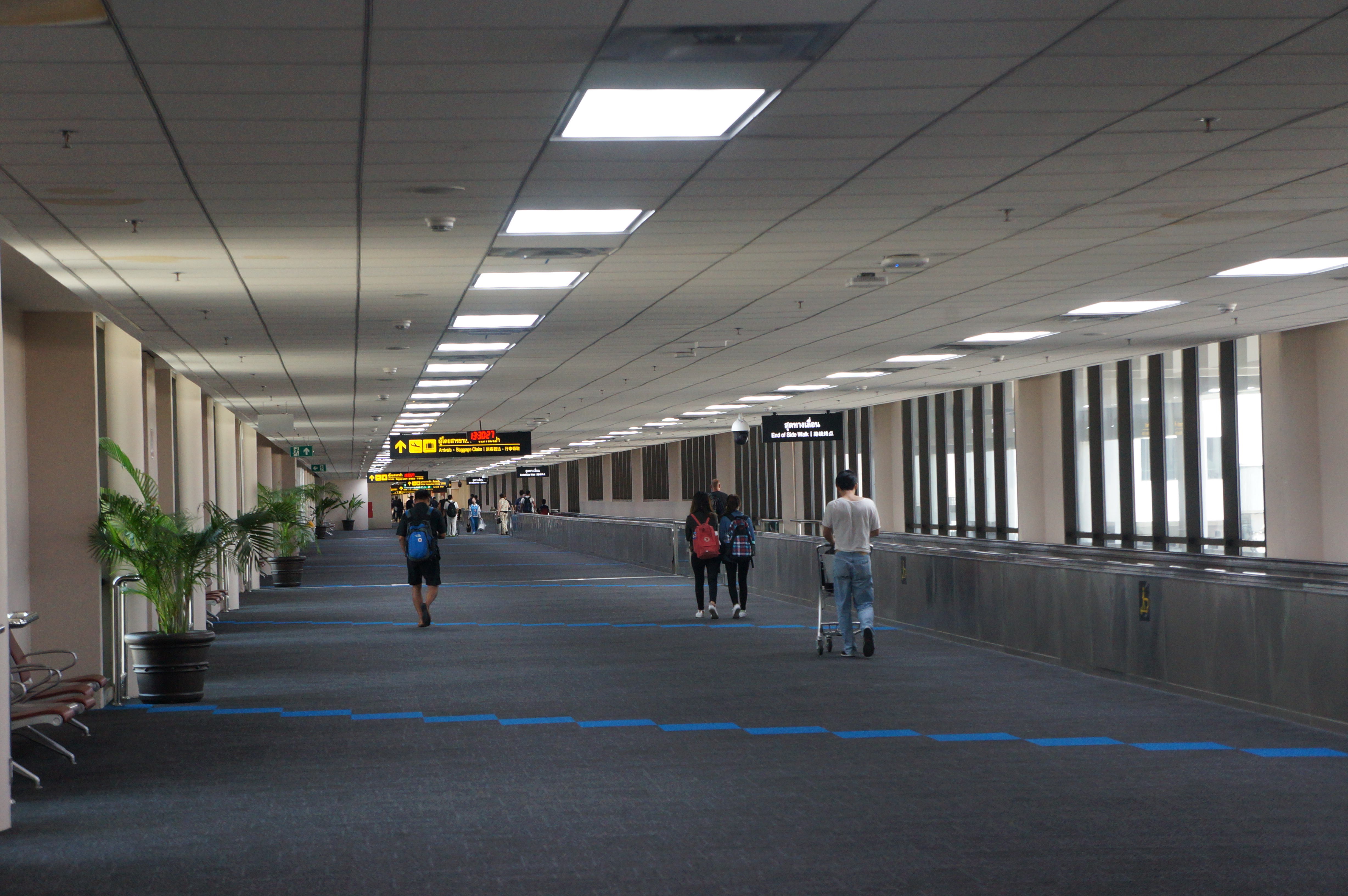 201701 Arrival Corridor in Domestic Arrival of DMK